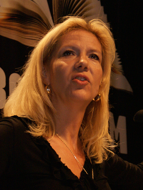 Liza Marklund, Swedish social crime fiction writer